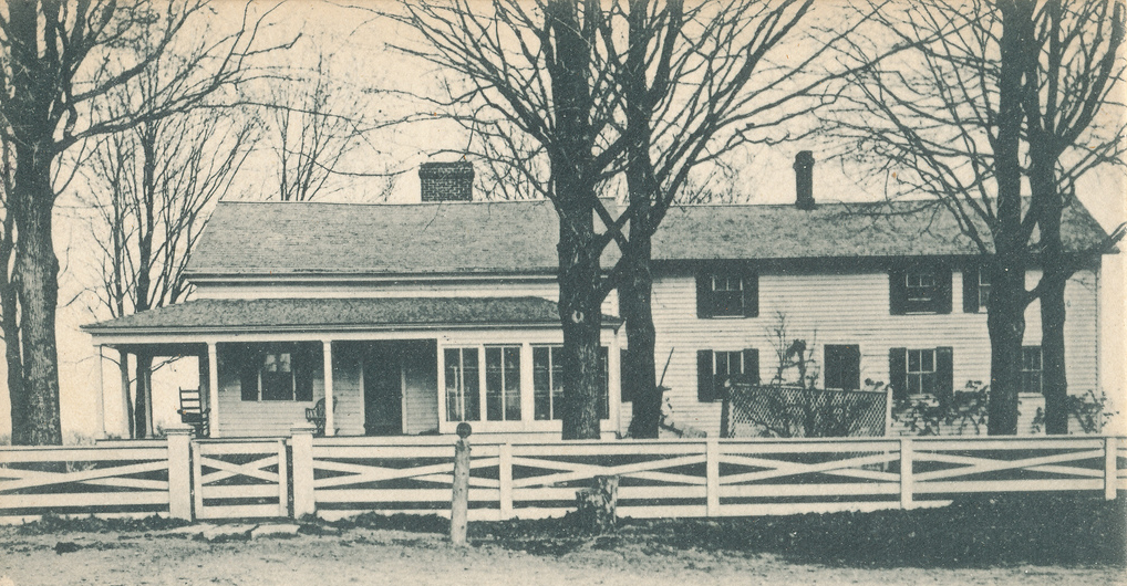 Vintage Postcard - Princeton, Illinois. The Owen Lovejoy Homestead. 1905. C.J. Dunbar & Co., Jewelers. Printed in Germany. On National Register of Historic places.